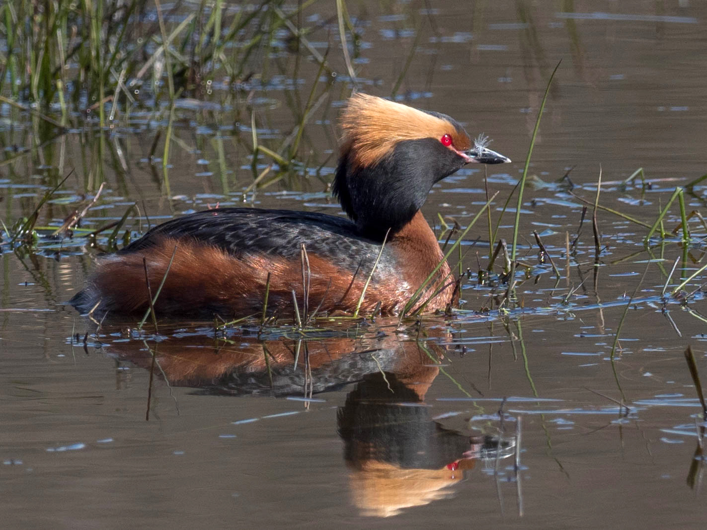 Podiceps auritus In Sweden